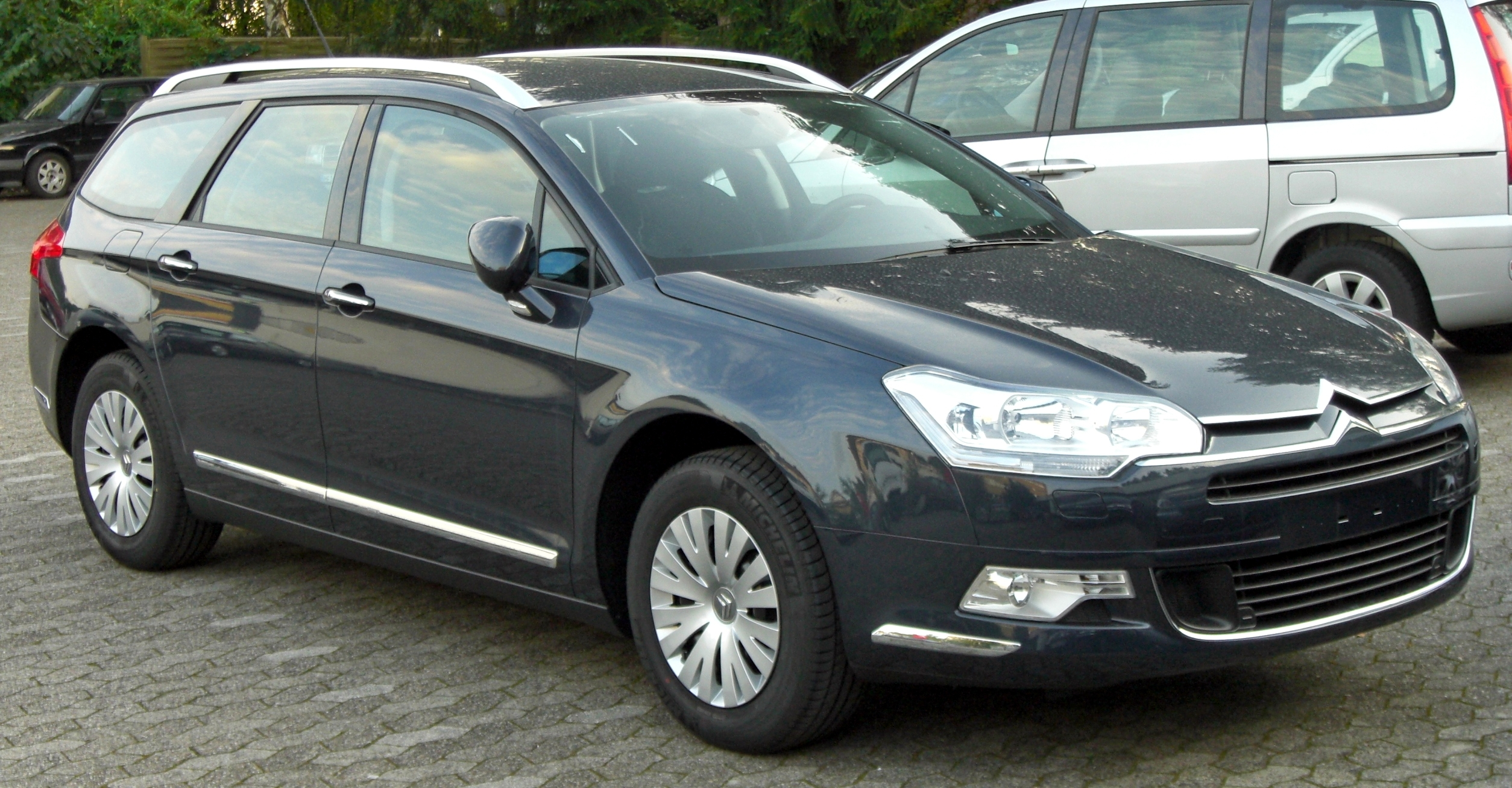 Citroën C5 Tourer